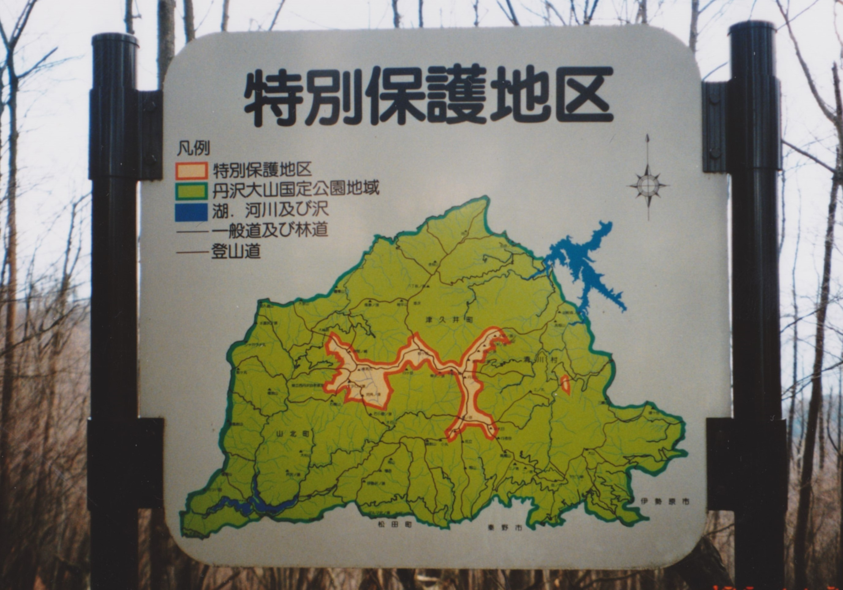 Map of Tanzawa-Oyama Park